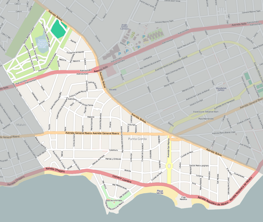 Street map of Punta Gorda, Montevideo, exported from OpenStreetMap. I added shading to delimit the barrio. This map may be incomplete, and may contain errors. Don't rely solely on it for navigation.